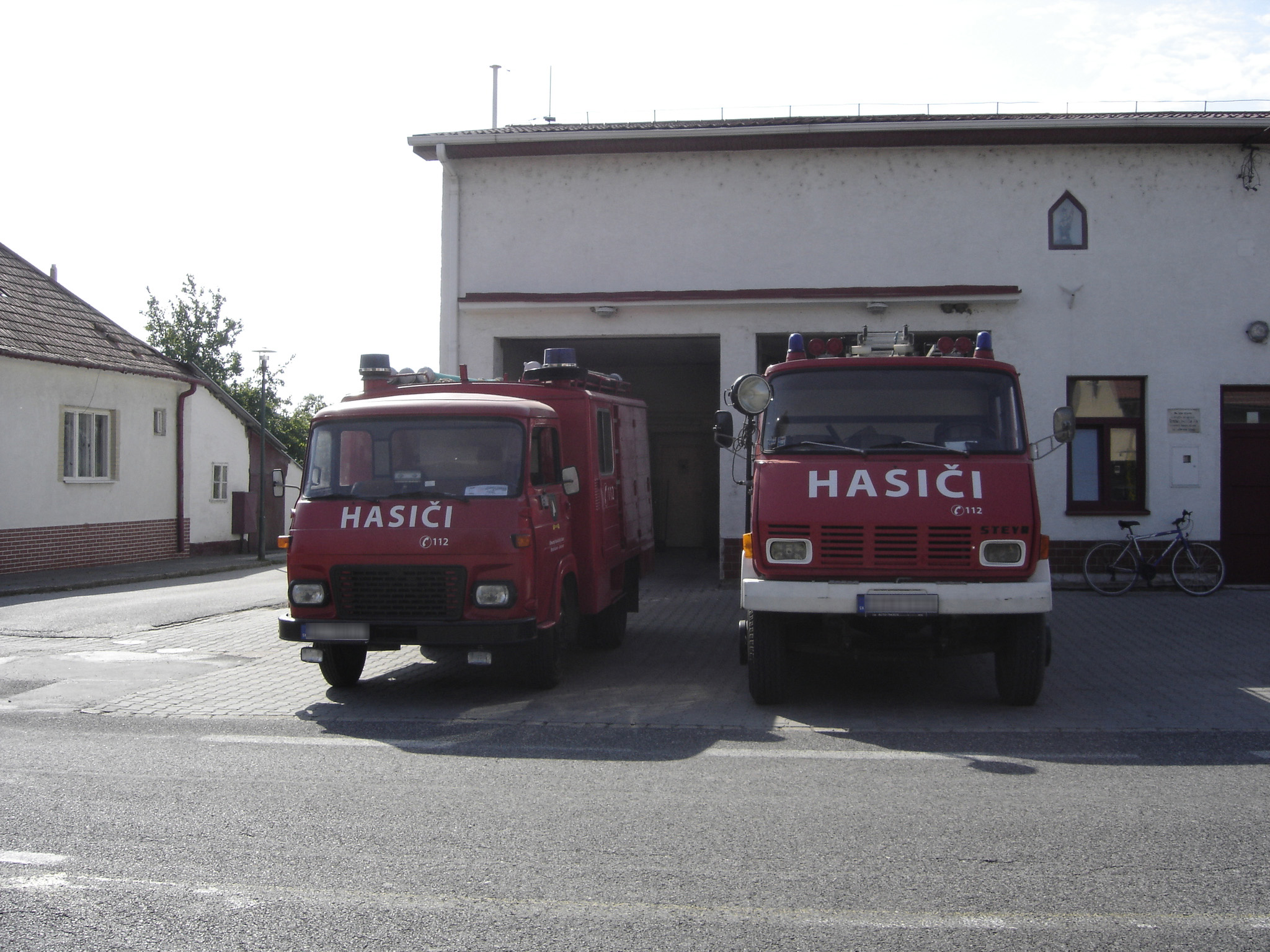 Jarovce, Bratislava, Slovakia